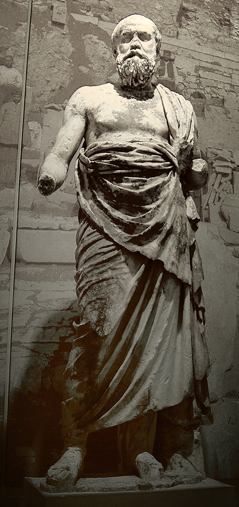 Statue of a philosopher, said to be either Plutarch or Plato, at Delphi Archaeological Museum in Greece .